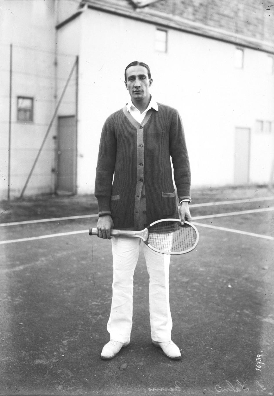 Ludwig von Salm, Austrian tennis player, 1911